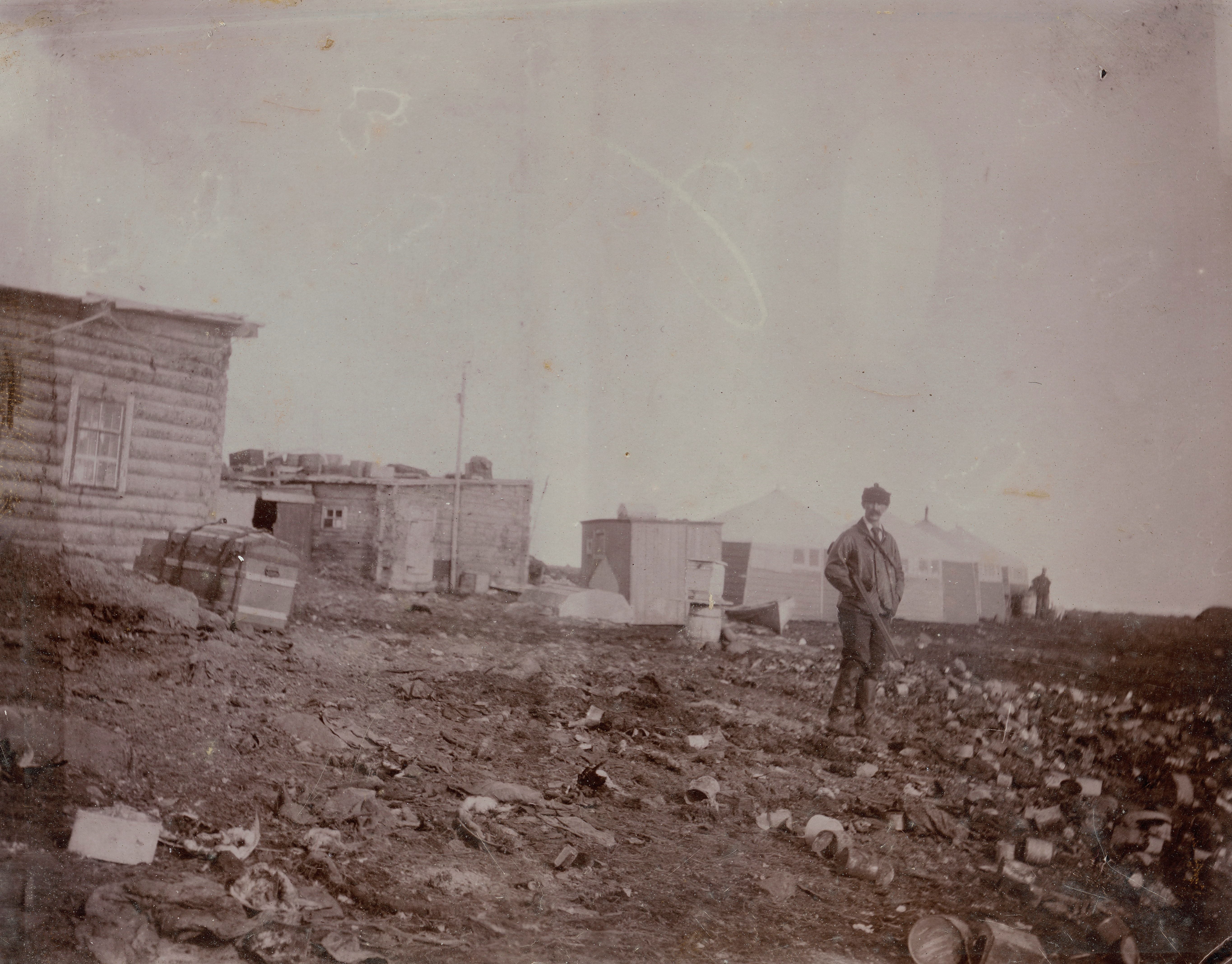 Frederick George Jackson, British officer, arctic researcher and leader of the expedition to Franz Joseph Land 1894-1897, in front of the meteorological station in Elmwood. From the left, a Russian log cabin, a stable for horses, and four round tents for equipment. One of the pictures from the expedition with arctic ship toward the North Pole in the period June 24, 1893 to August 13, 1896. According to the plan, the ship was to drift in the ice with the ocean current from the coast of Siberia across the North Pole to Greenland. In March 1895, Fridtjof Nansen, together with a companion, set out with dogsledges on a hazardous expedition on skis, in an attempt to reach the pole itself.